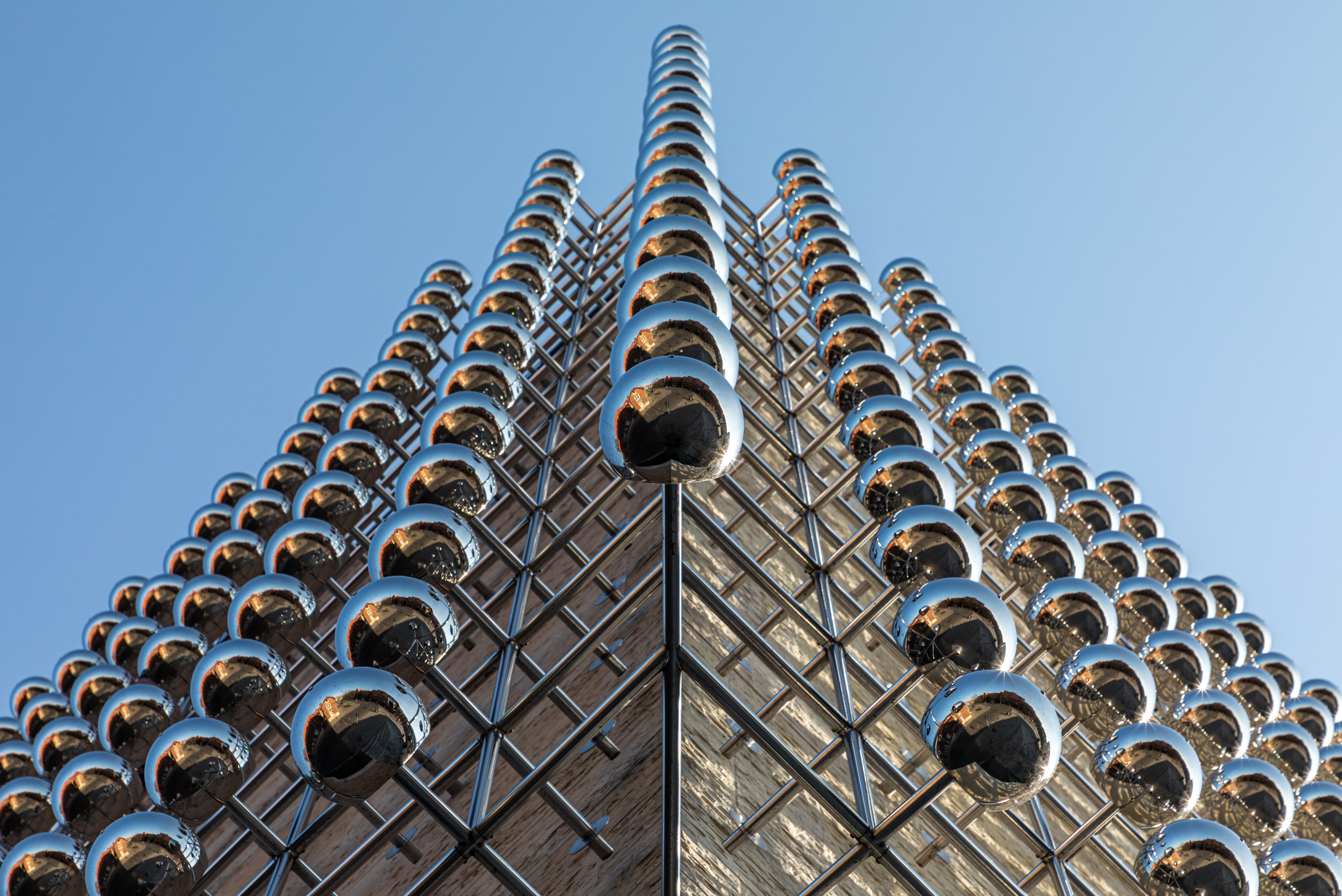 Sculpture “Silberne Frequenz” (Otto Piene, 1970/71, 2012/14 redesign) at the LWL museum, Münster, North Rhine-Westphalia, Germany Sculpture TitleSilberne FrequenzArtistOtto PieneDatebetween 1970 and 2014